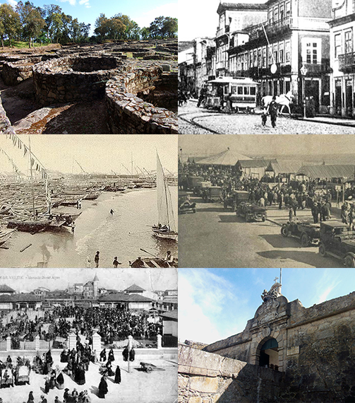 Historical pictures of Póvoa de Varzim, Portugal